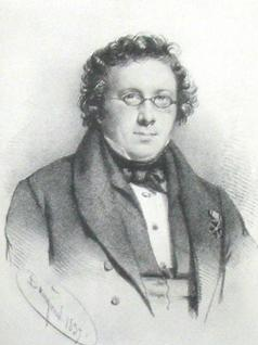 Depicted person: Jean-Baptiste Brabant, Belgian member of Parliament